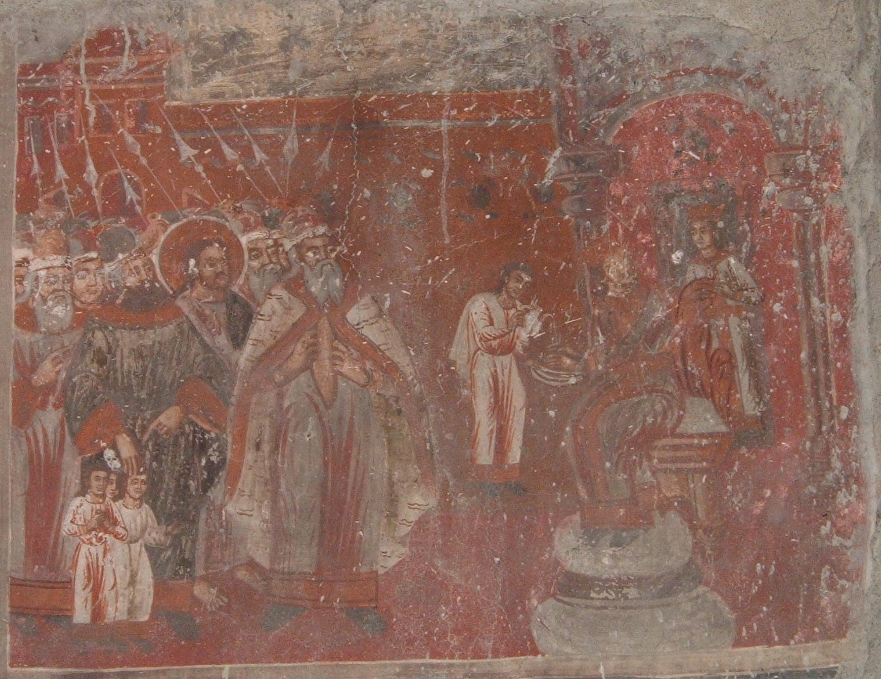 Fotini Saint Minas Church Fresco